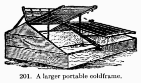 This is an image from L. H. Bailey's Manual of Gardening.